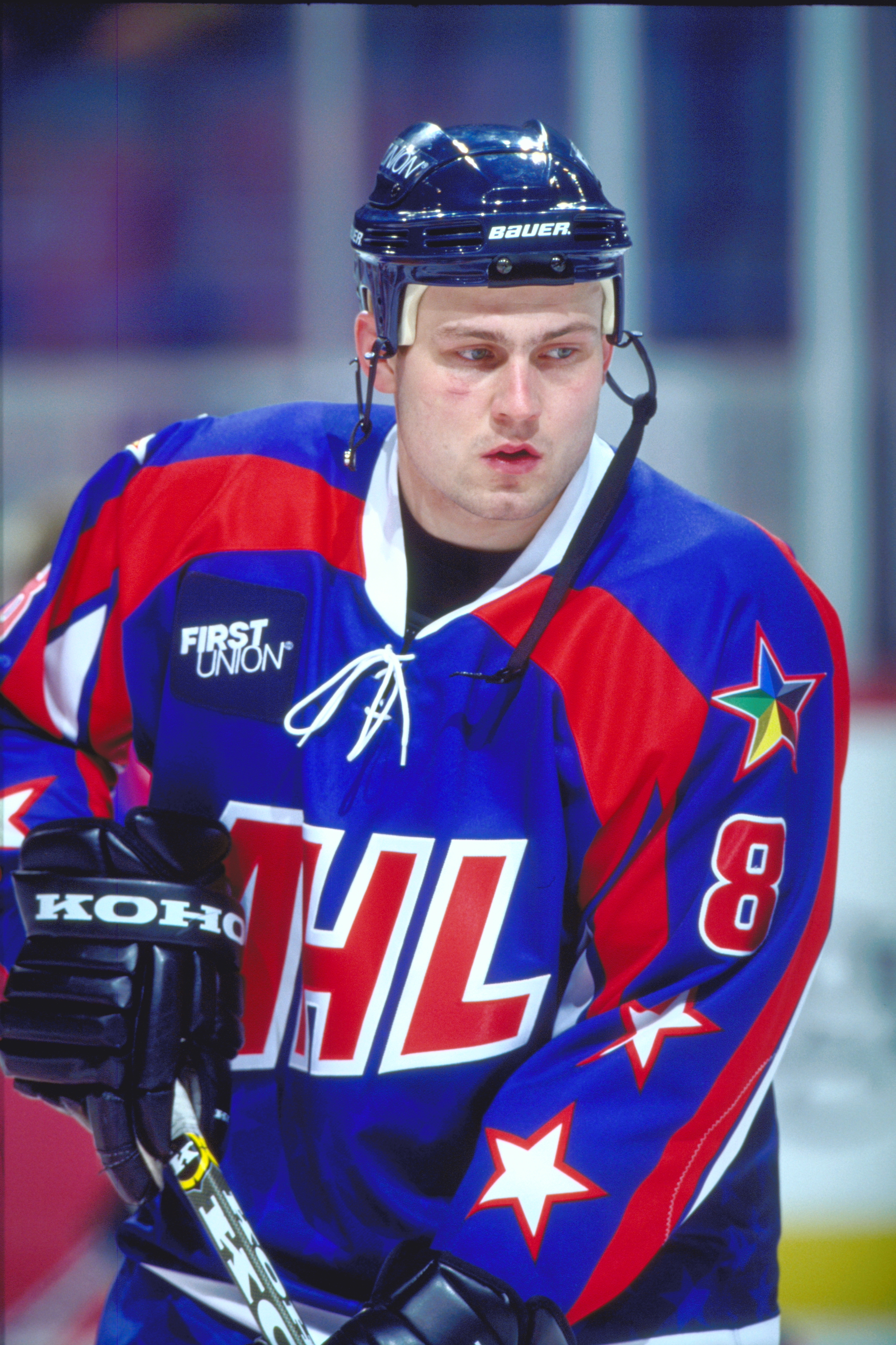 hhof0321